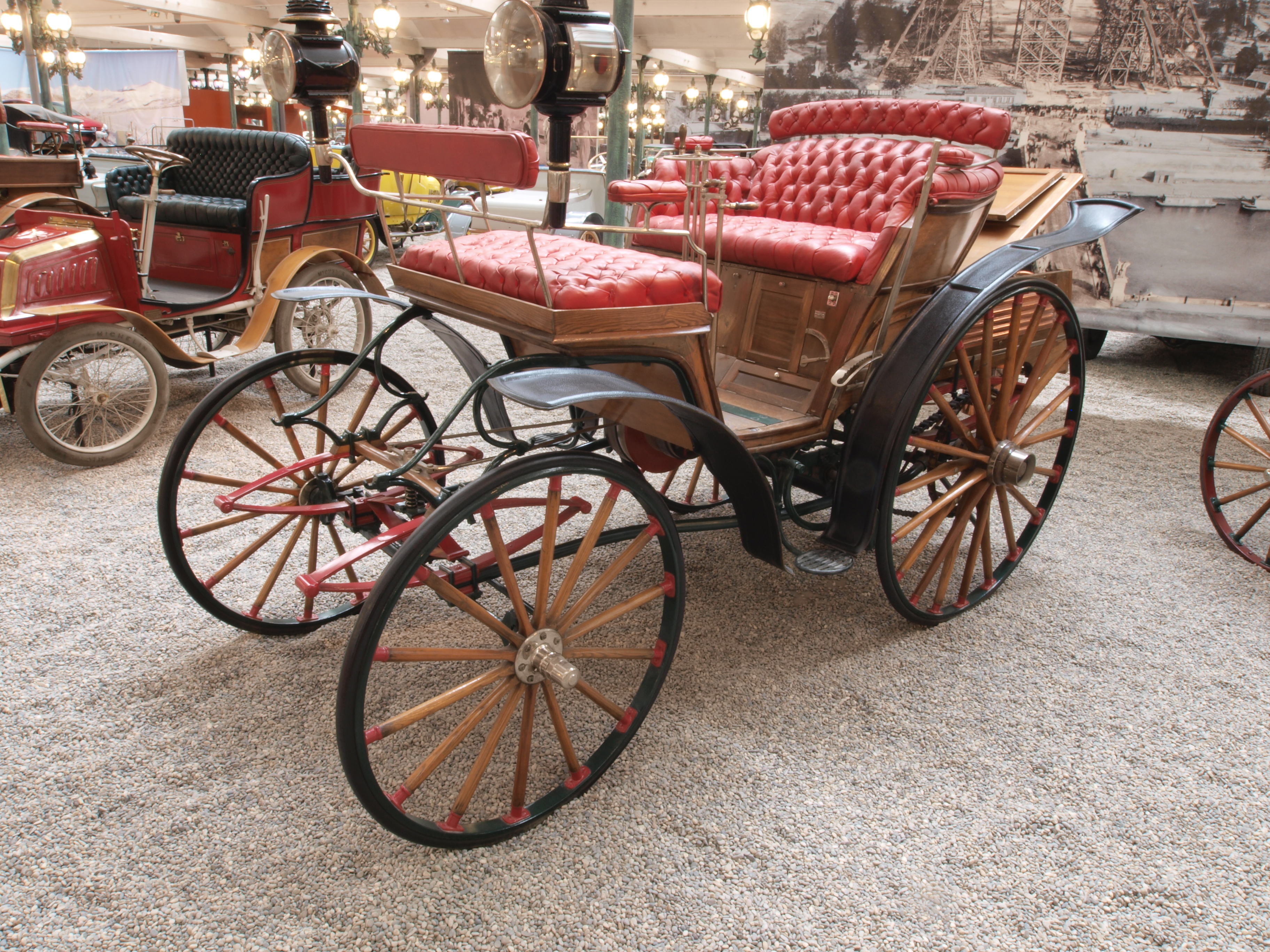 Photographed at the Cité de l’Automobile, France. OLYMPUS DIGITAL CAMERA